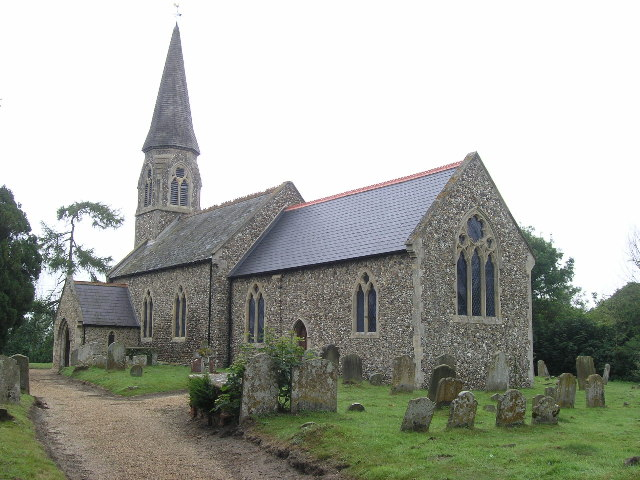 Walpole (Suffolk) St Mary's Church.